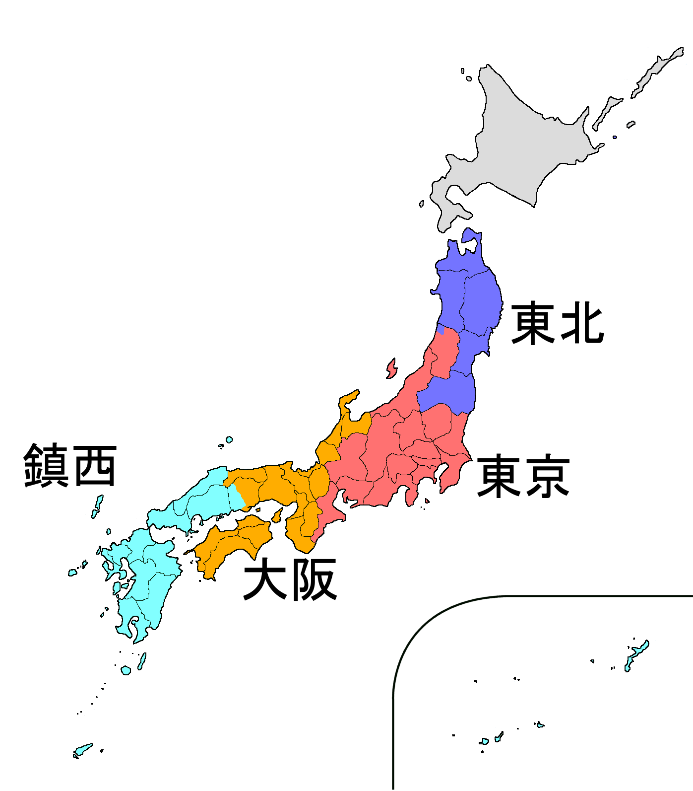 English version is File:Army Regions of Japan 1871en.png.